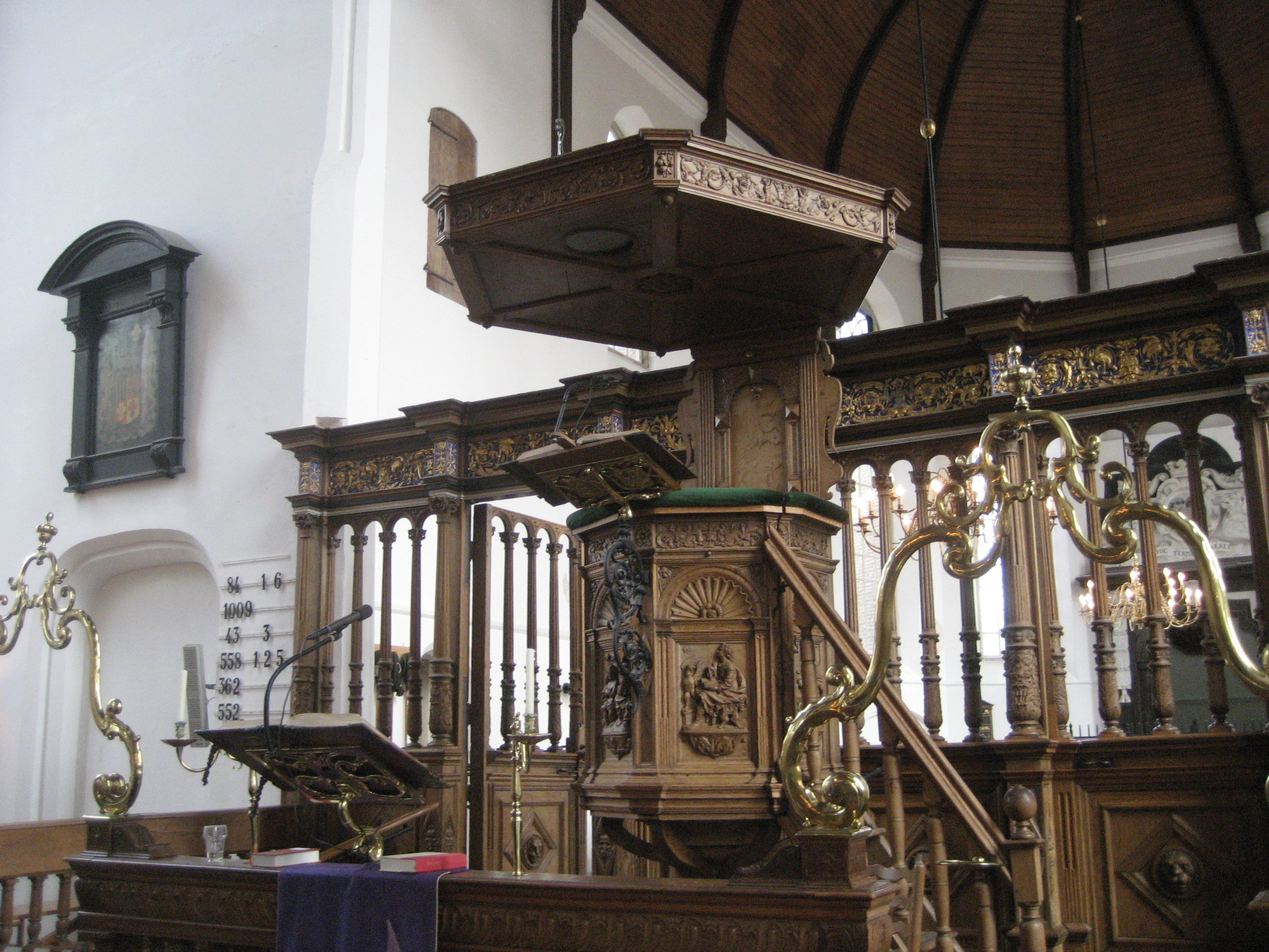 Dorpskerk Abcoude (The Netherlands). Pulpit